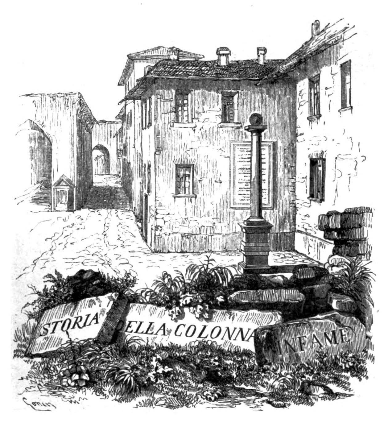 The most famous Italian historical romance,and the masterpiece of Alessandro Manzoni.